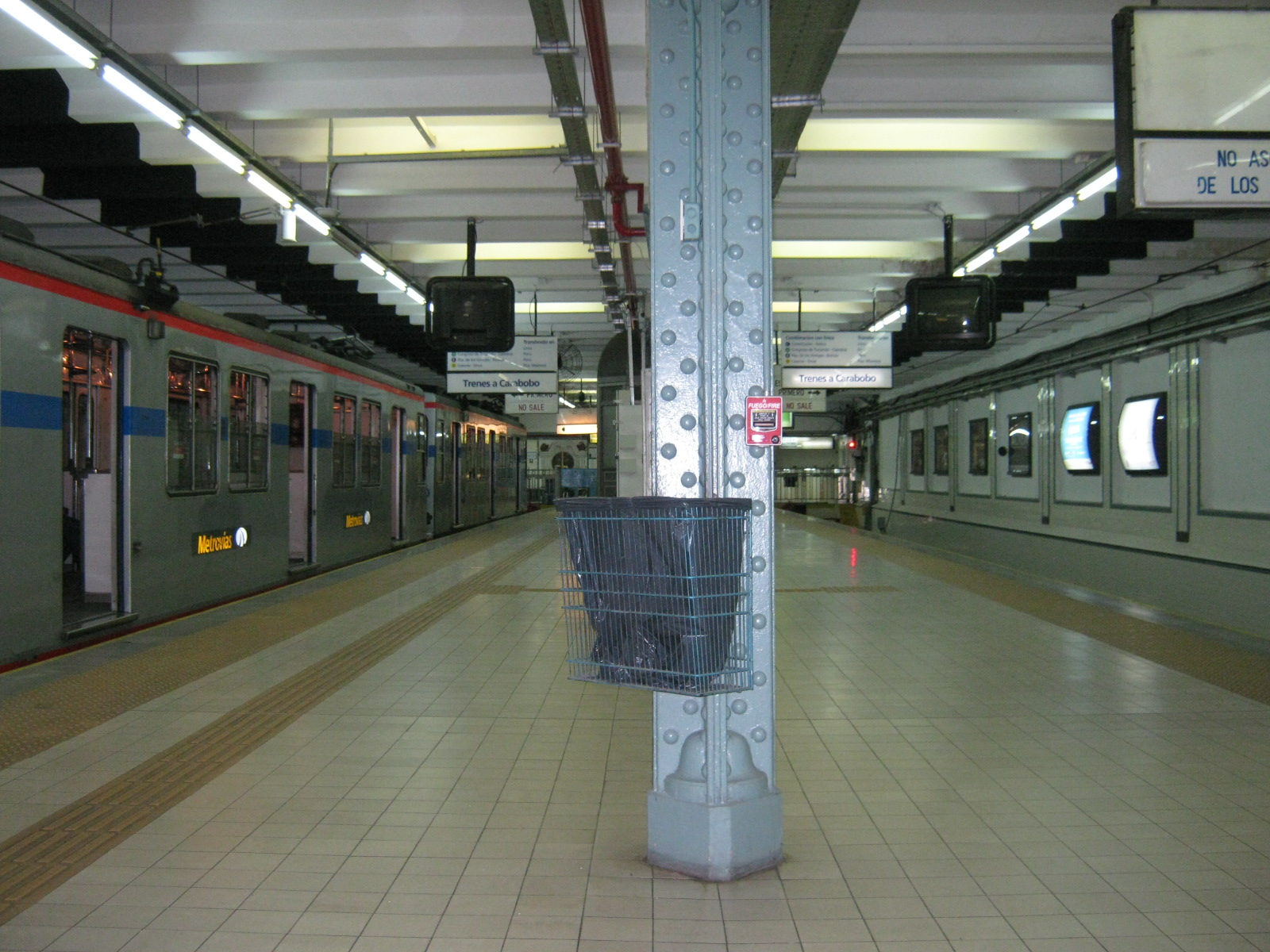 Metro-Underground - Buenos Aires